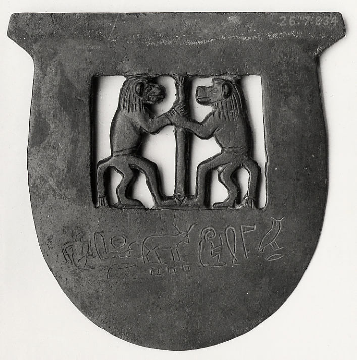 Ax head with 2 cynocephali apes and papyrus column